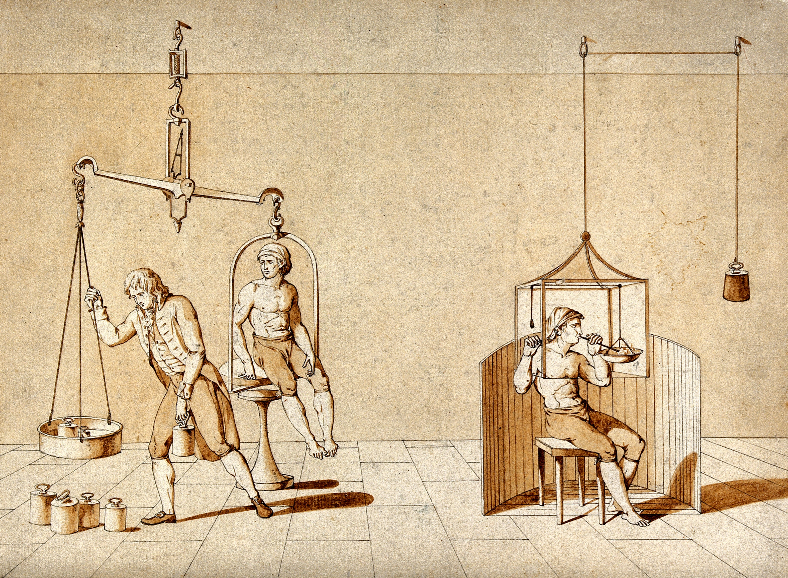 A man being weighed on a huge set of scales, and a man with his head in a glass container; showing Lavoisier's experiments with respiration. Brown pen and wash drawing. Iconographic Collections Keywords: Antoine Laurent Lavoiser